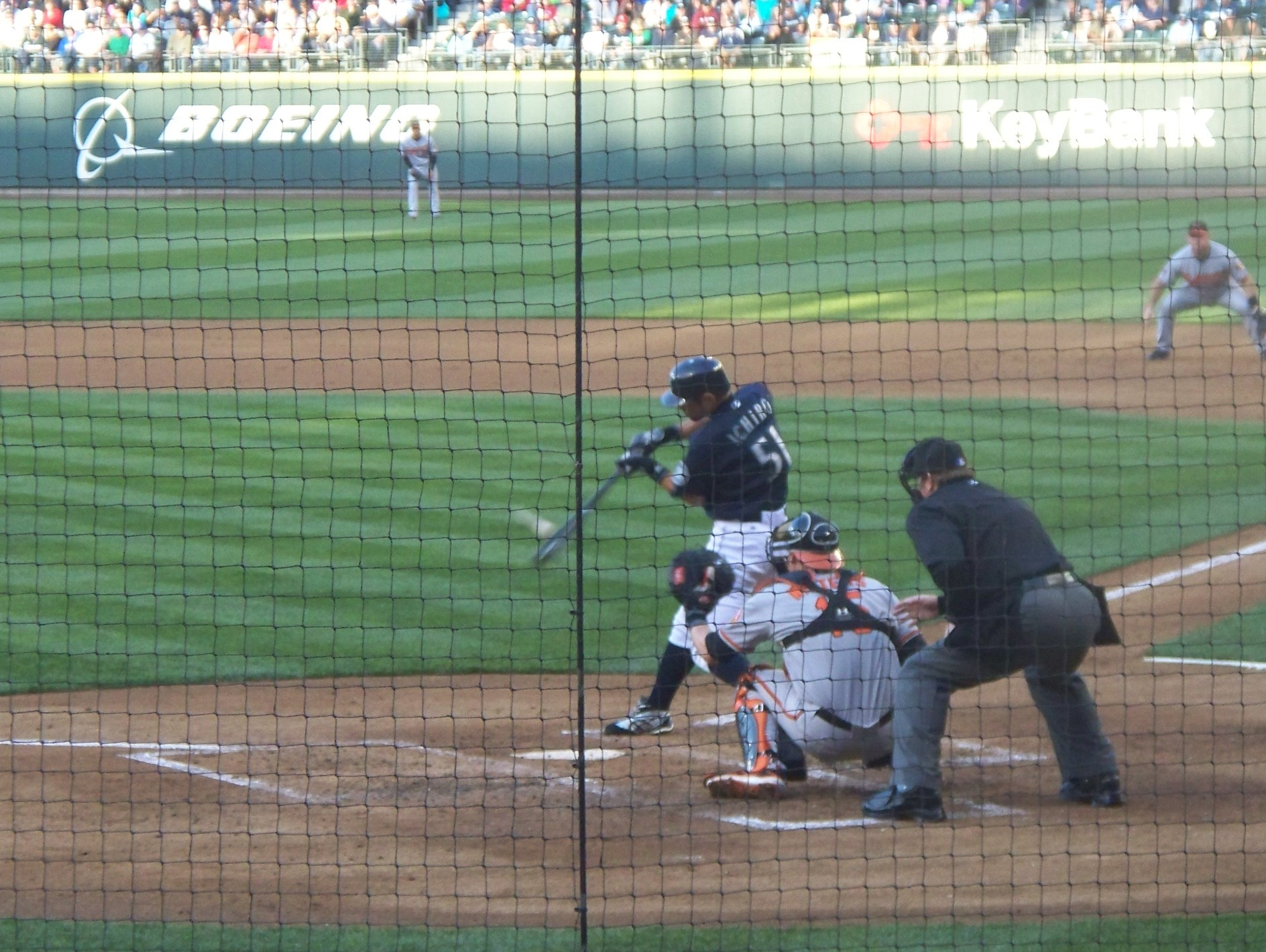 Ichiro Suzuki batting, bottom of the 3rd inning playing against Baltimore Orioles on July 6, 2009.